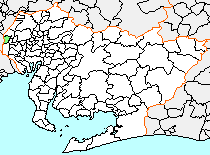 Position of former Hachikai village (八開村), Aichi, Japan